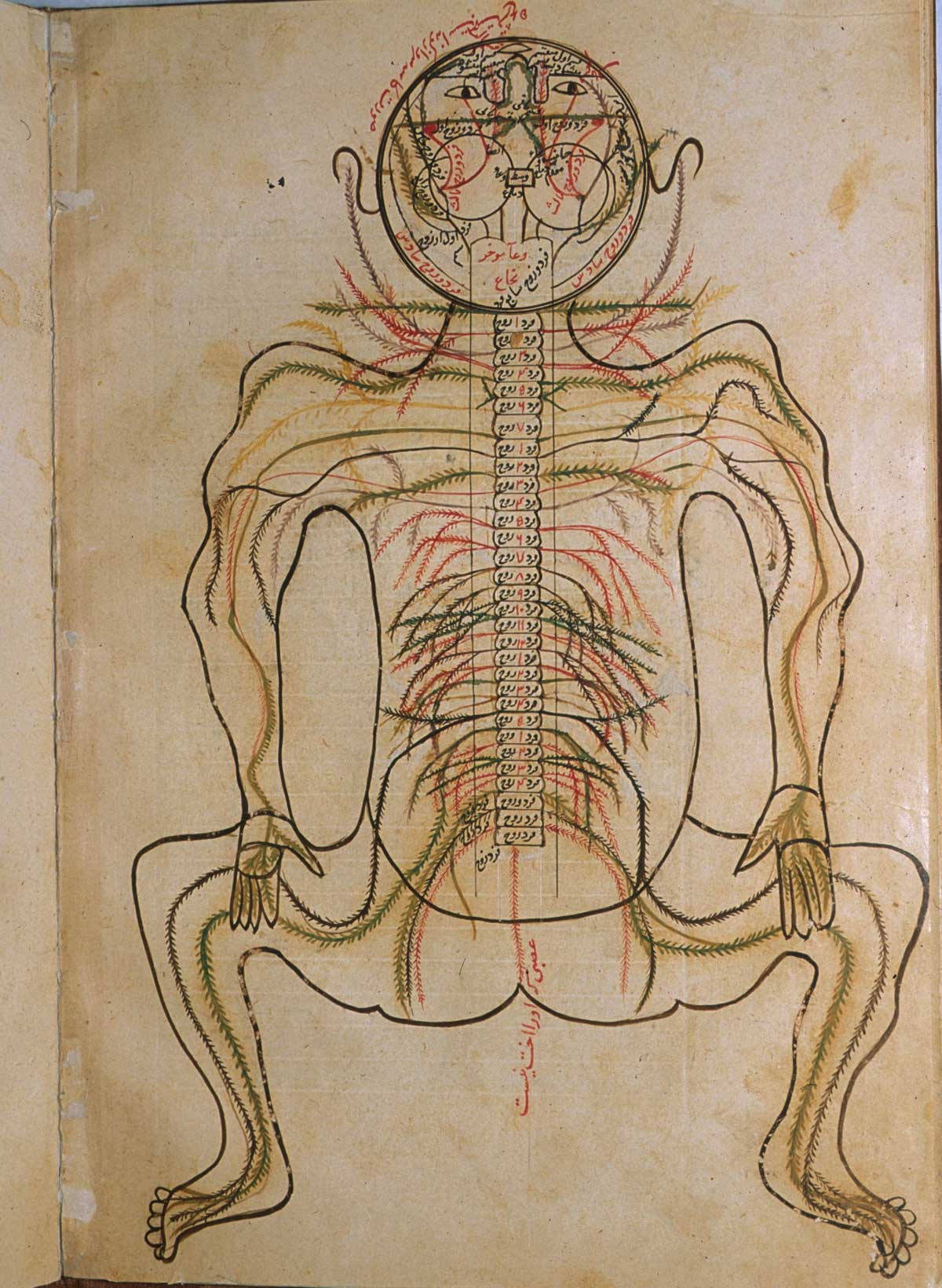 Drawing of the human nervous system with the pairs of nerves in different colors of ink from the manuscript of Mansur ibn Ilyas, Tashrih-i badan-i insan [Anatomy of the Human Body], National Library of Medicine, MS P 19, folio 11b.